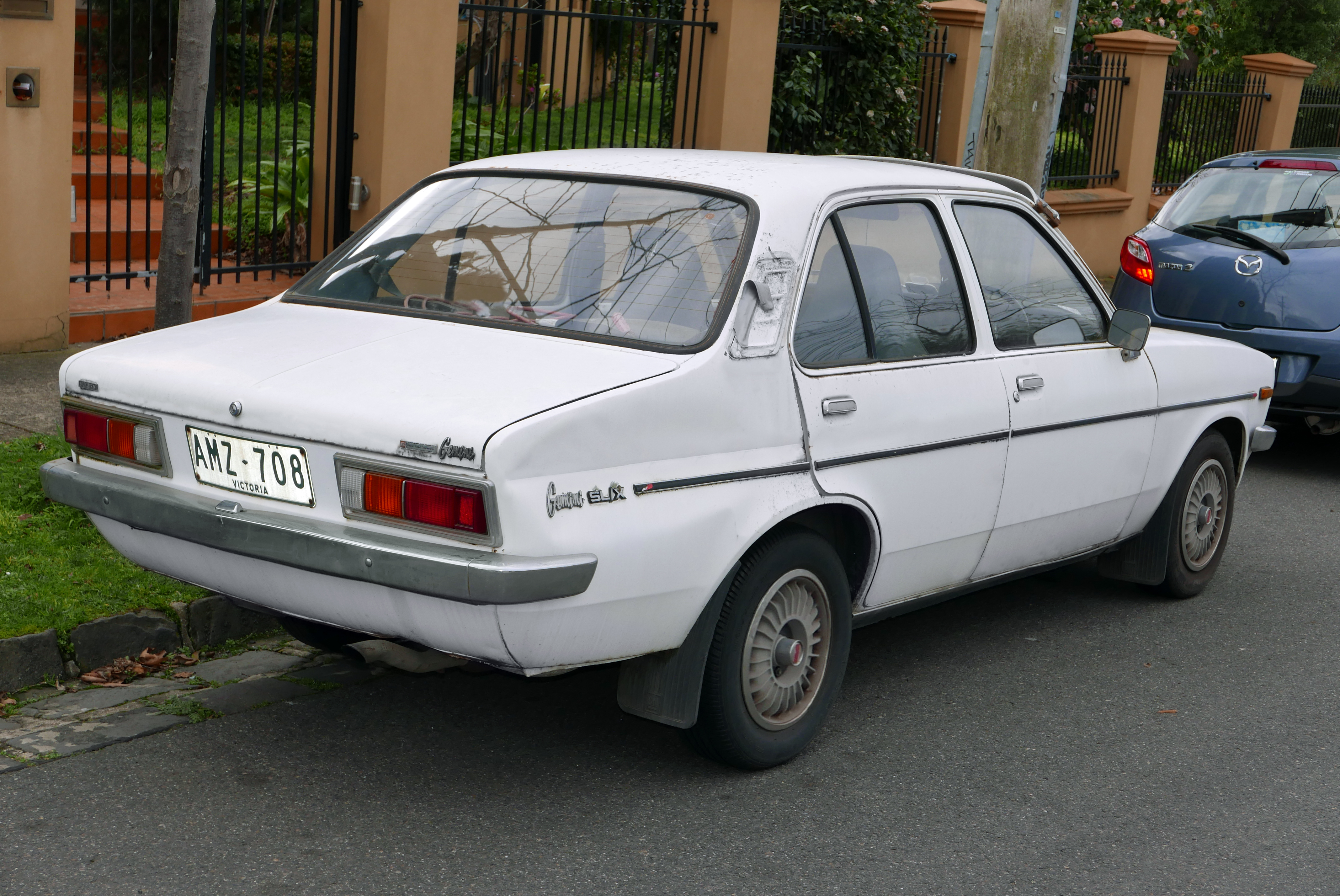 1979 Holden Gemini (TD) SL/X sedan. Photographed in Kew, Victoria, Australia. Vehicle registration enquiry results Jurisdiction Victoria Registration AMZ708 Chassis code ATD32769B Engine code 887999Q Compliance date 1979-05 Year of manufacture 1979